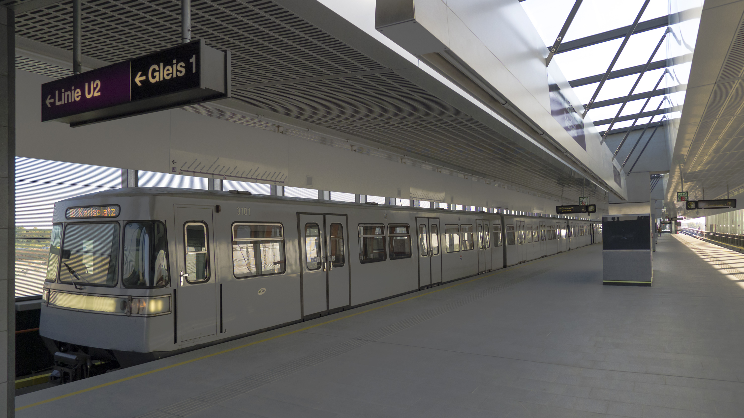 Underground station Seestadt of line U2 in Vienna 22